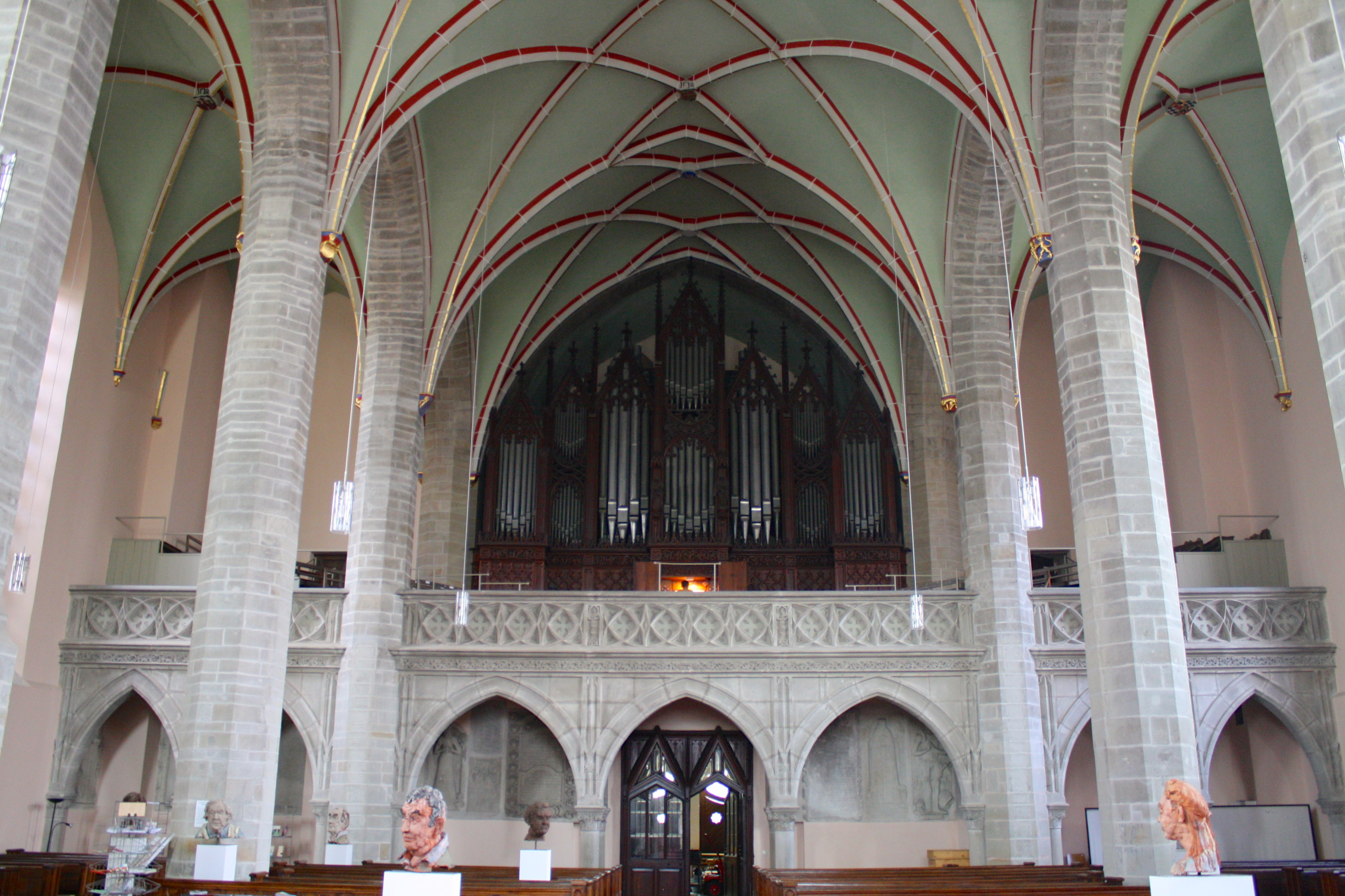 1872 Ladegast Organ of the St.-Jakobs-Kirche, Köthen (Germany)